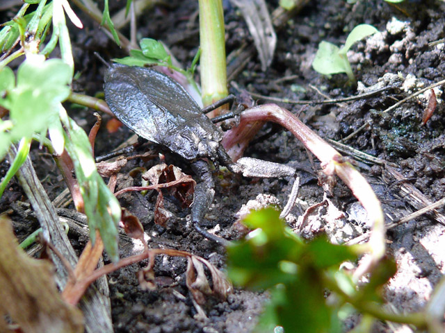 Nepa hoffmanni, Aichi pref on 20/April/2007